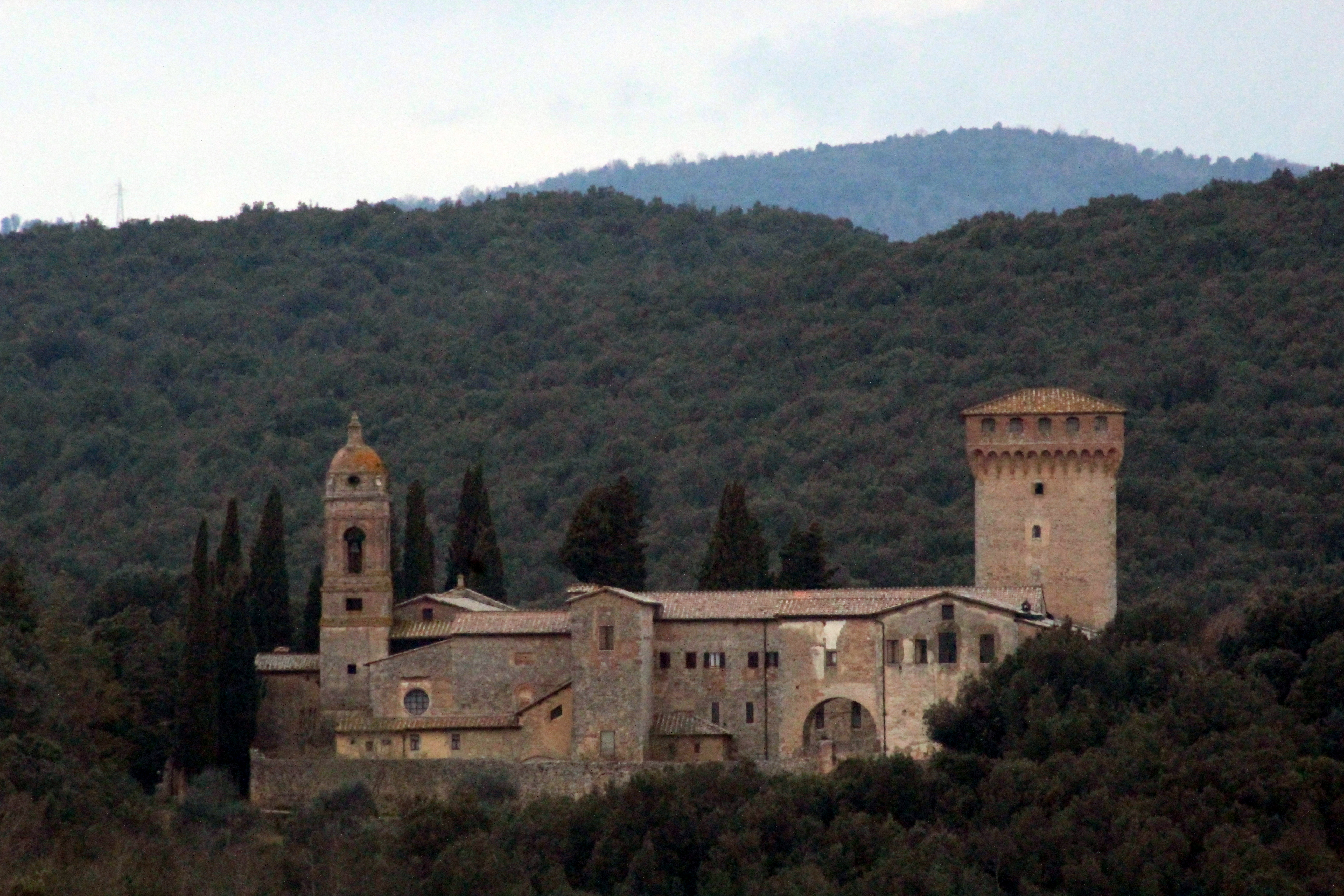 Hermitage Eremo di San Salvatore di Lecceto (Eremo di Lecceto), outside of Siena, Province of Siena, Tuscany, Itay